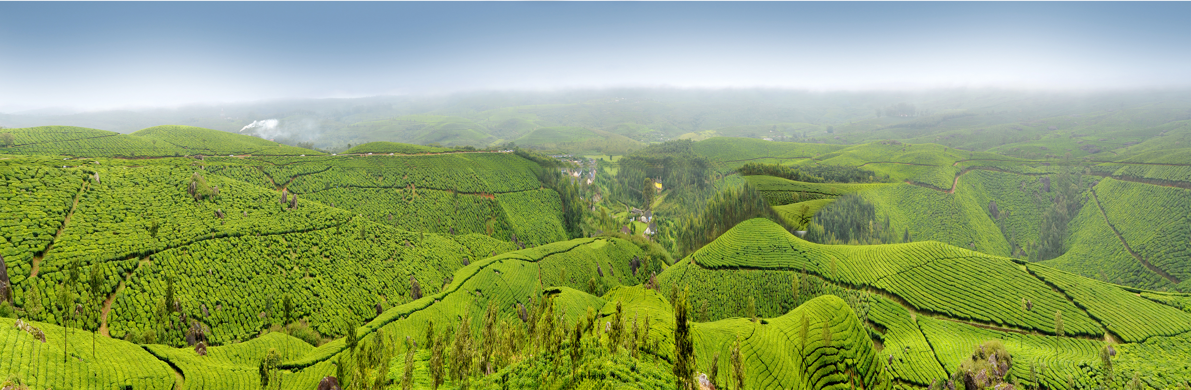 Hill View (Munnar - Kerala)